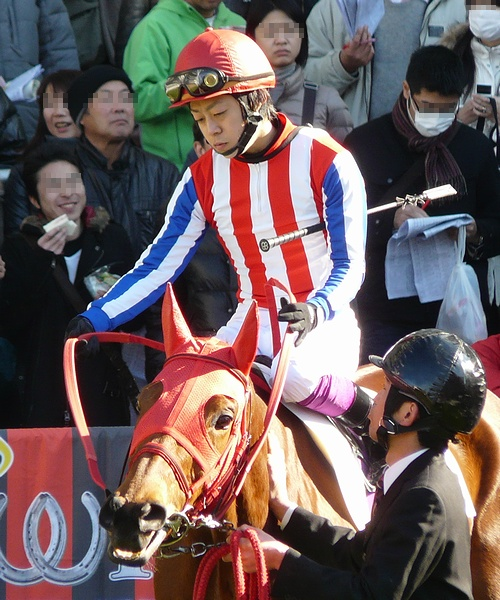 Shizuya-Kato20111225